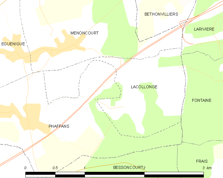 Map of French municipality Lacollonge